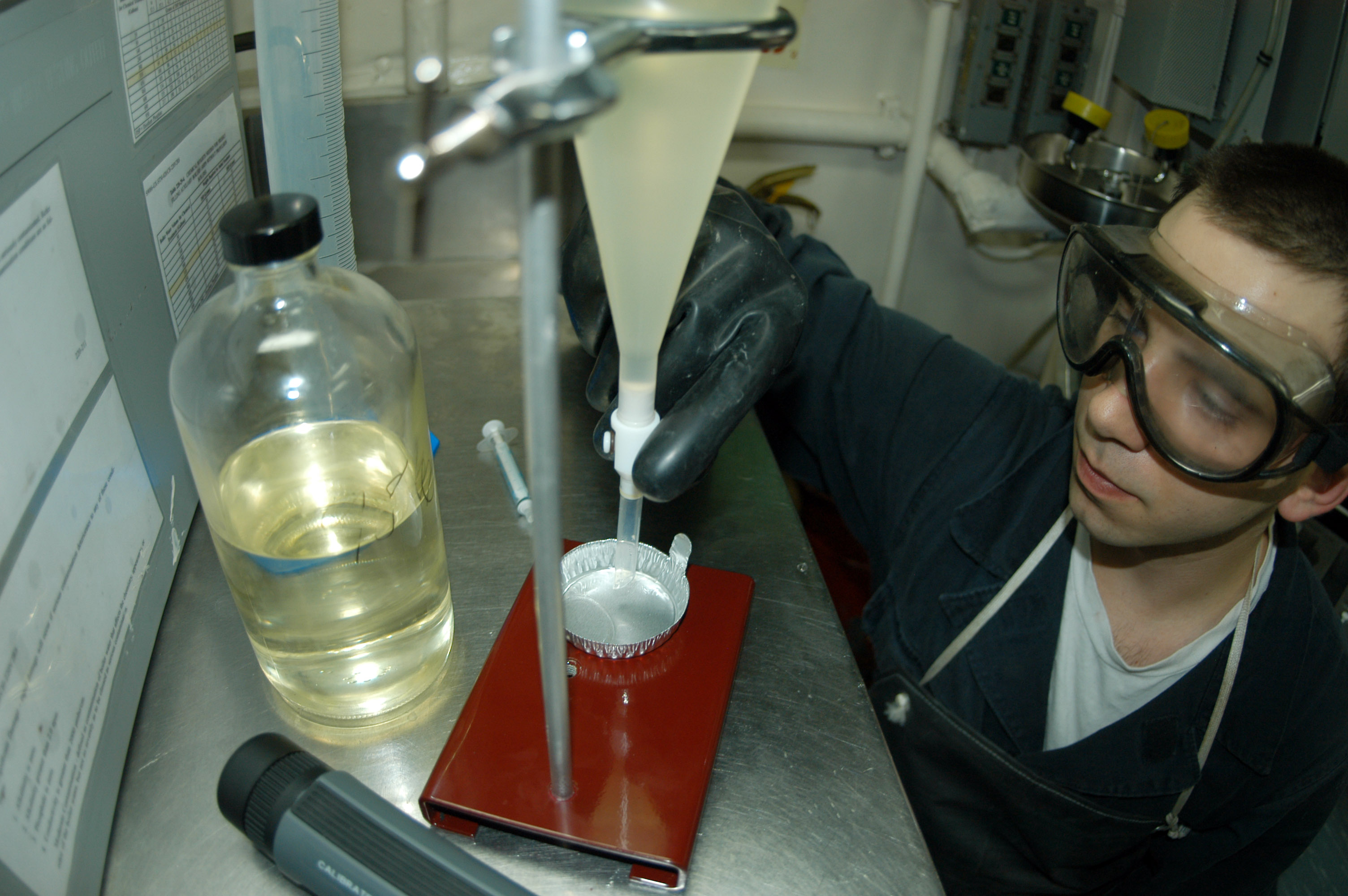 SOUTH CHINA SEA (Feb. 03, 2009) Engineman 3rd Class Kenneth Fechtner, from Sparta, Wis. assigned to the forward deployed amphibious dock landing ship USS Tortuga (LSD 46) tests fuel to determine the amount of required anti-icing additive. Tortuga is in route to participate in Exercise Cobra Gold 09 (CG 09). CG 09 is an annual Thailand and U.S. co-sponsored joint coalition military exercise designed to train Thai, U.S. and Singaporean Coalition Task Force. (U.S. Navy photo by Mass Communication Specialist 1st Class Geronimo Aquino/Released)